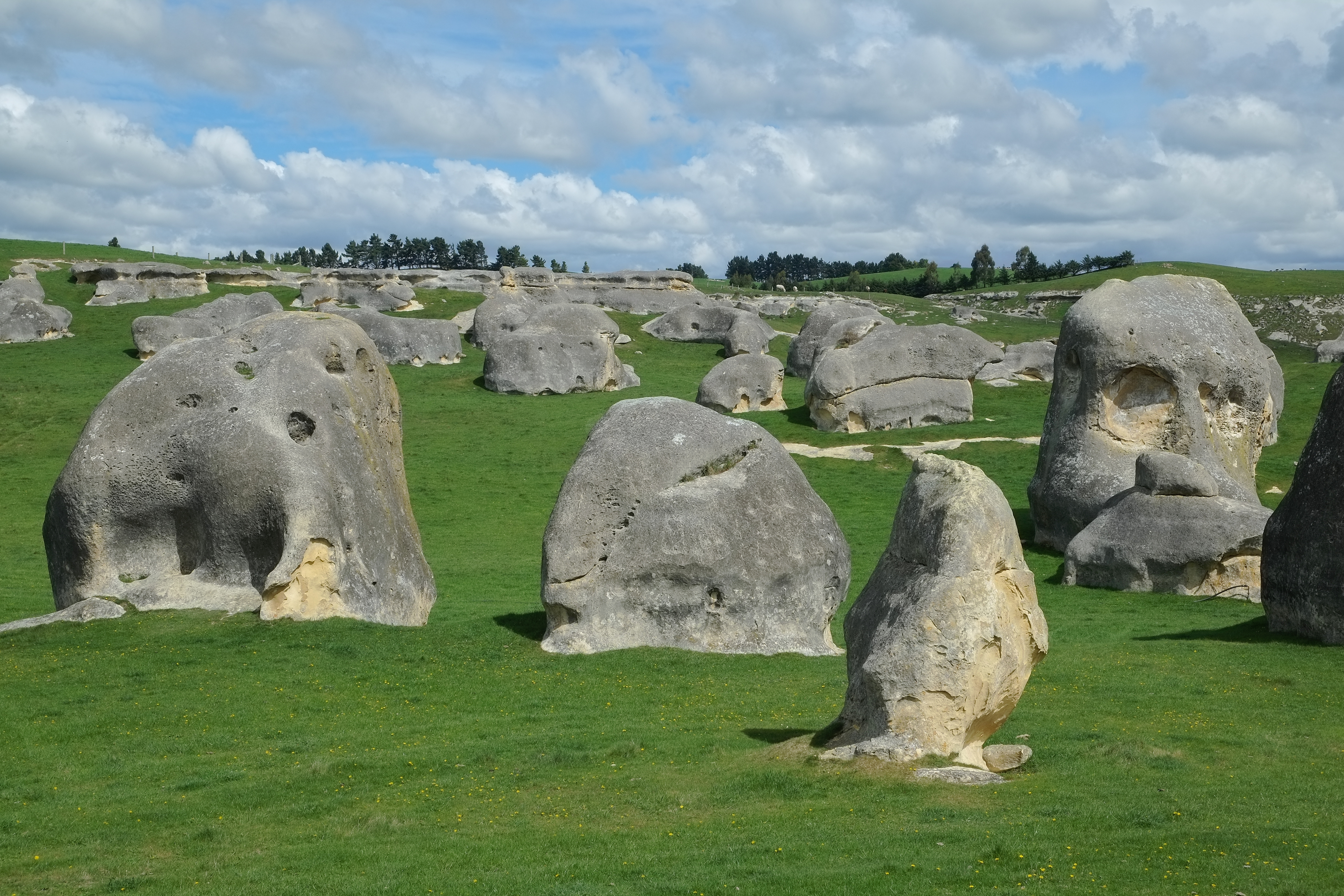 Elephant Rocks in Waitaki Valley, North Otago